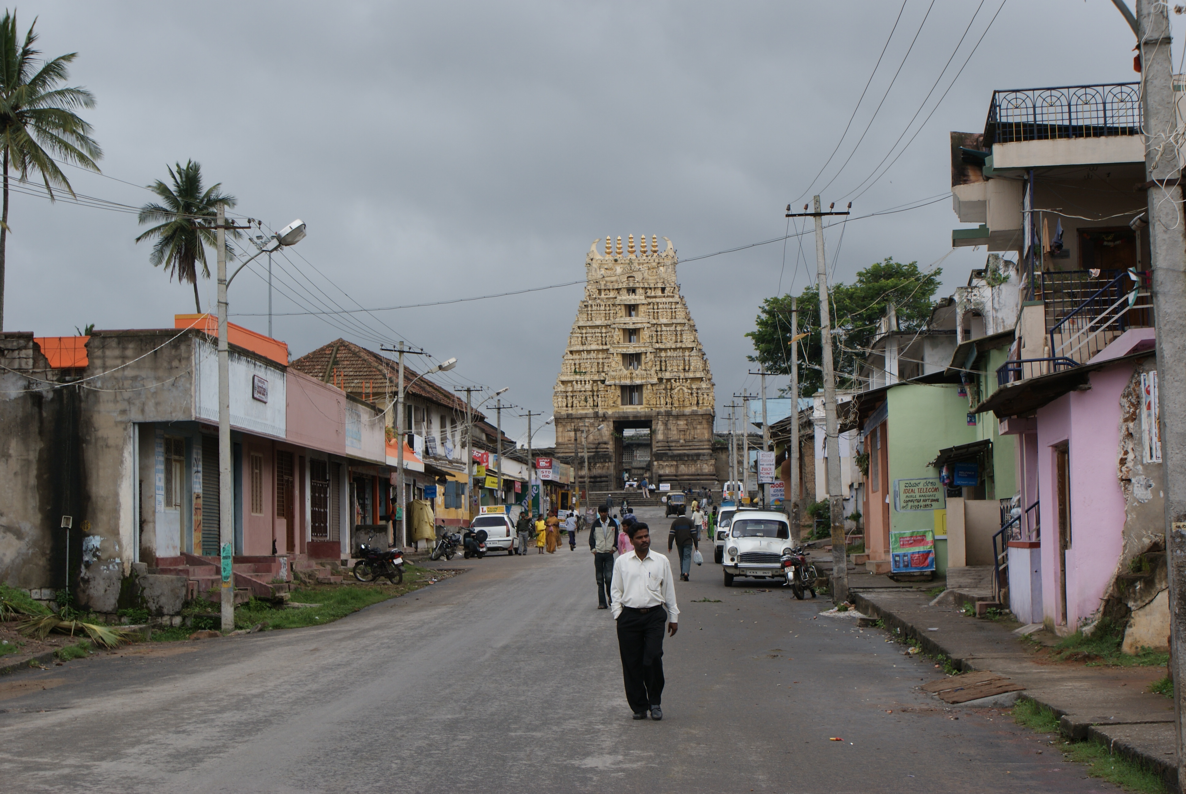 Street towards the Chennakesava temple in Belur, Karnataka